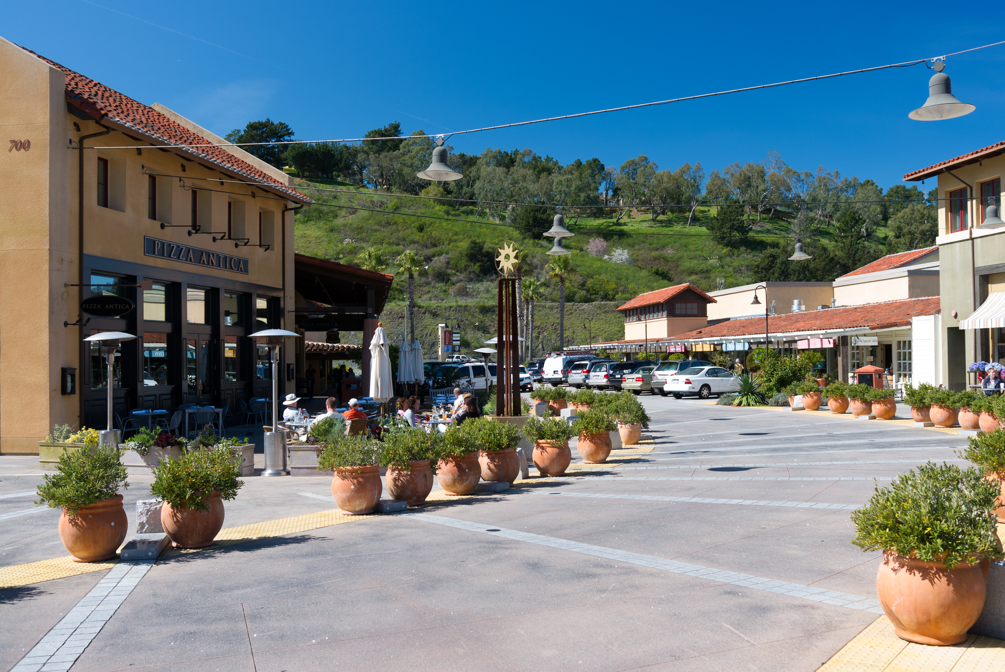 Strawberry Village Shopping Center, as seen in March 2012.